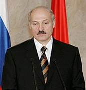 President of Belarus Alexander Lukashenko